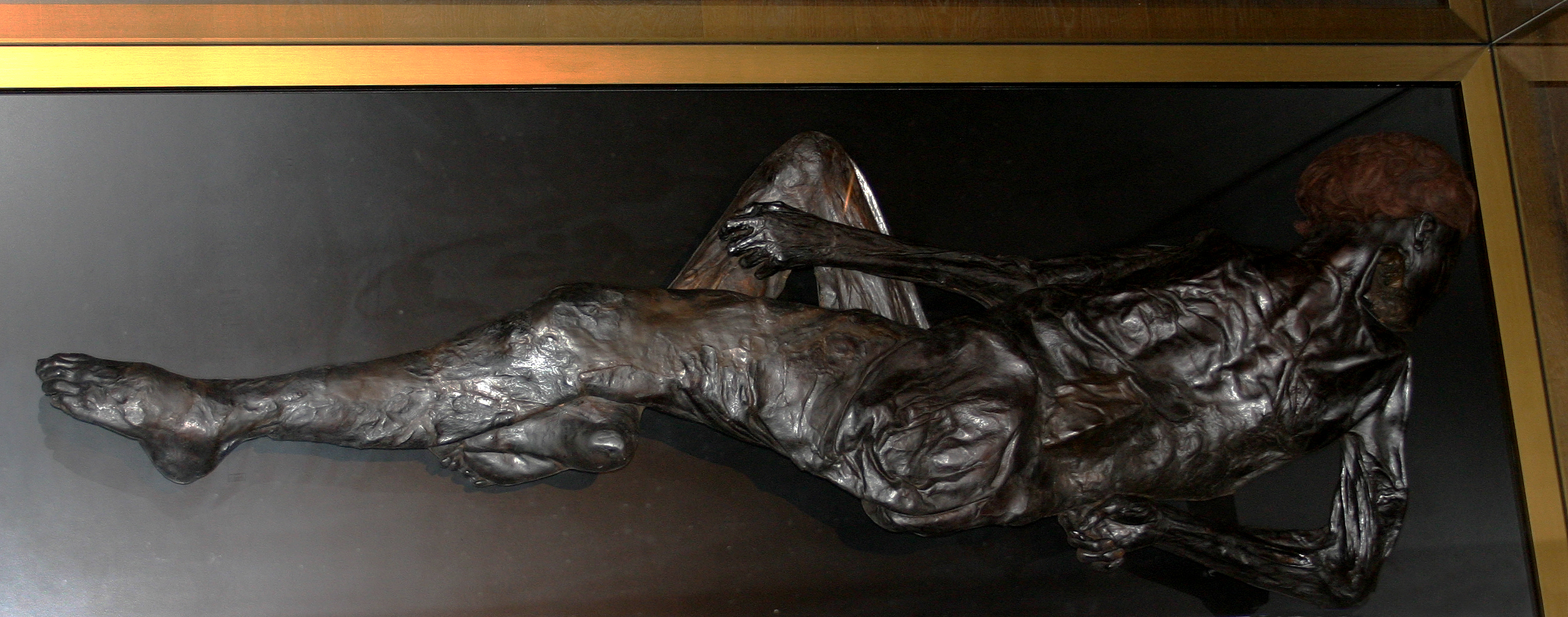 Grauballe-Man at Moesgaard-Museum, Denmark